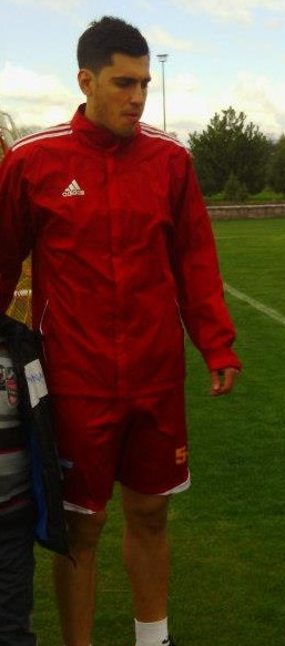 Ceyhun kayserispor kampında benimle /kessstim